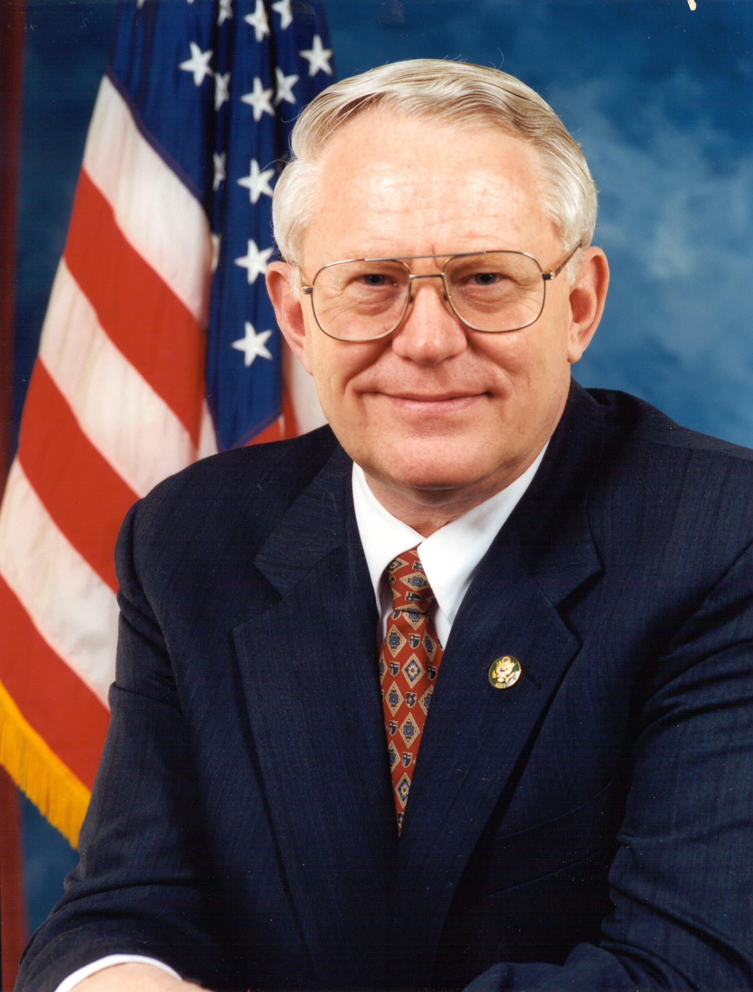 Joseph R. Pitts, U.S. Congressman (R-Pennsylvania, 1997-present)